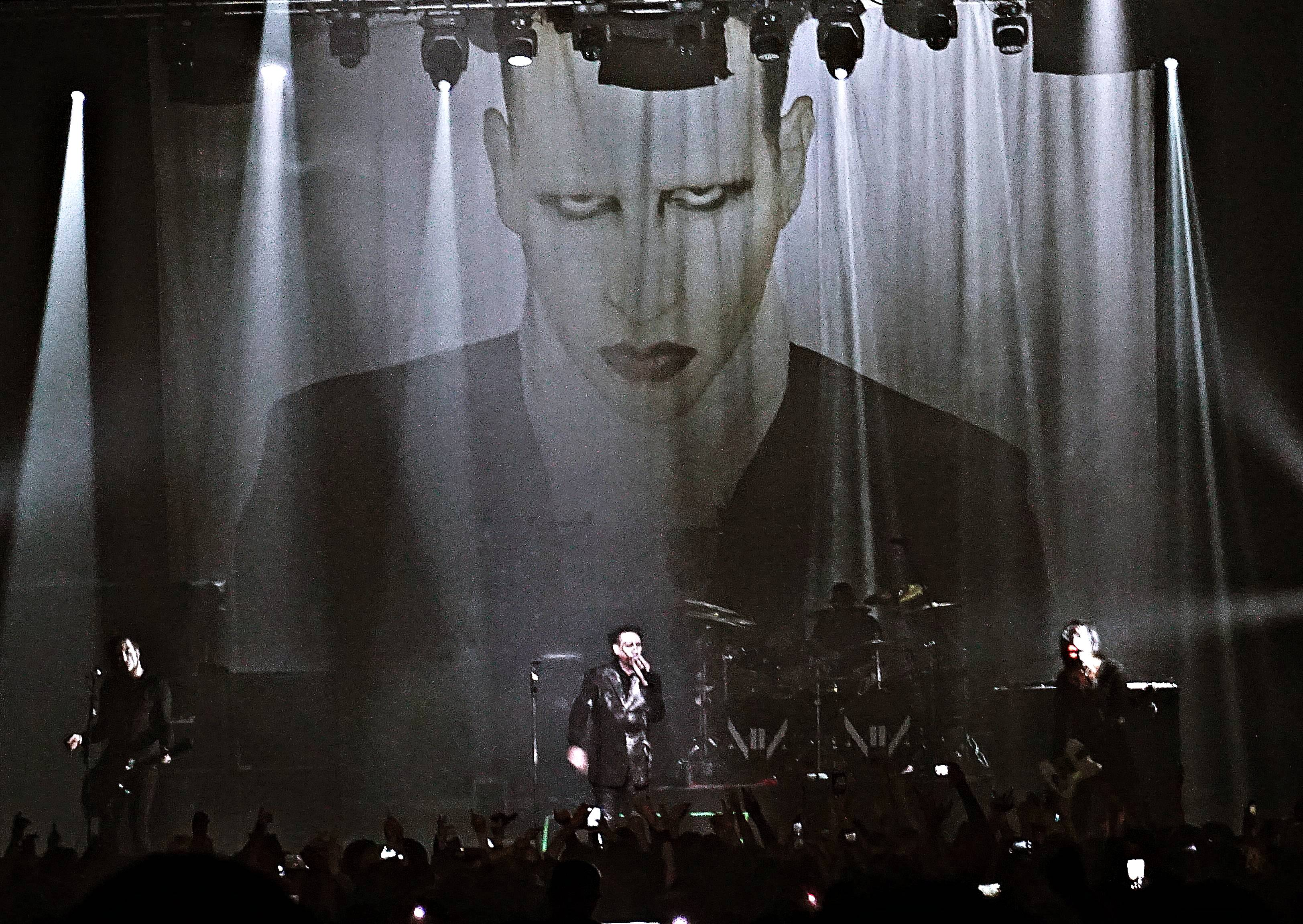 A picture of Marilyn Manson (band) performing at the O2 Apollo Manchester on November 23, 2015 during The Hell Not Hallelujah Tour.